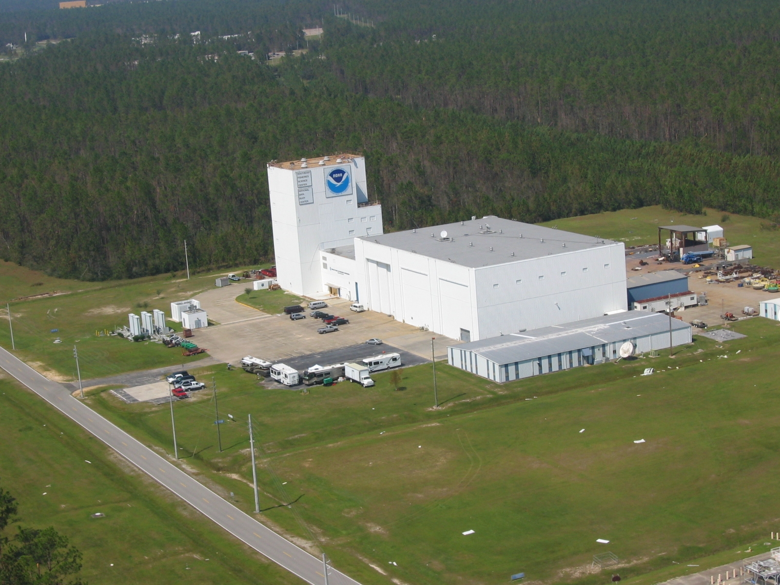 The National Data Buoy Center at Bay St. Louis escaped relatively unscathed from the wrath of Hurricane Katrina. Stennis Space Center, Mississippi.